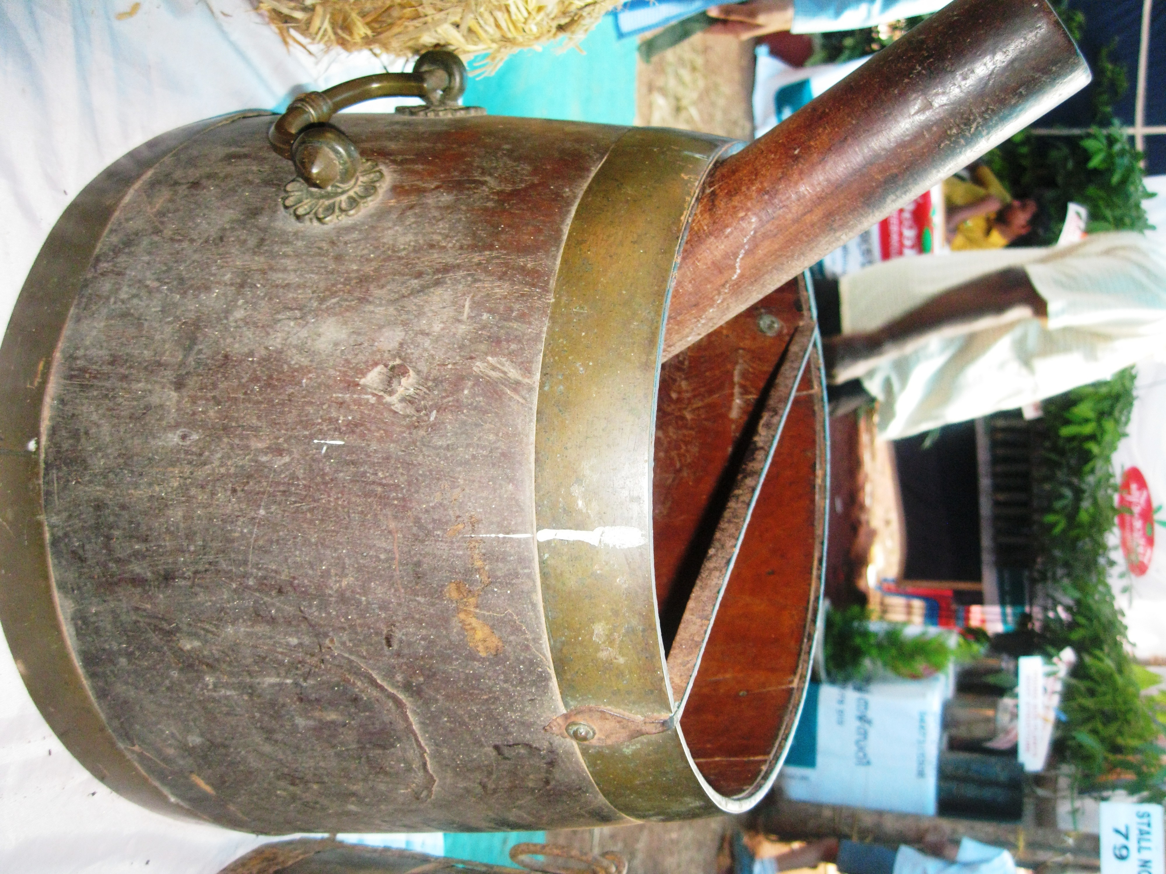 para, a messuring vessel in kerala